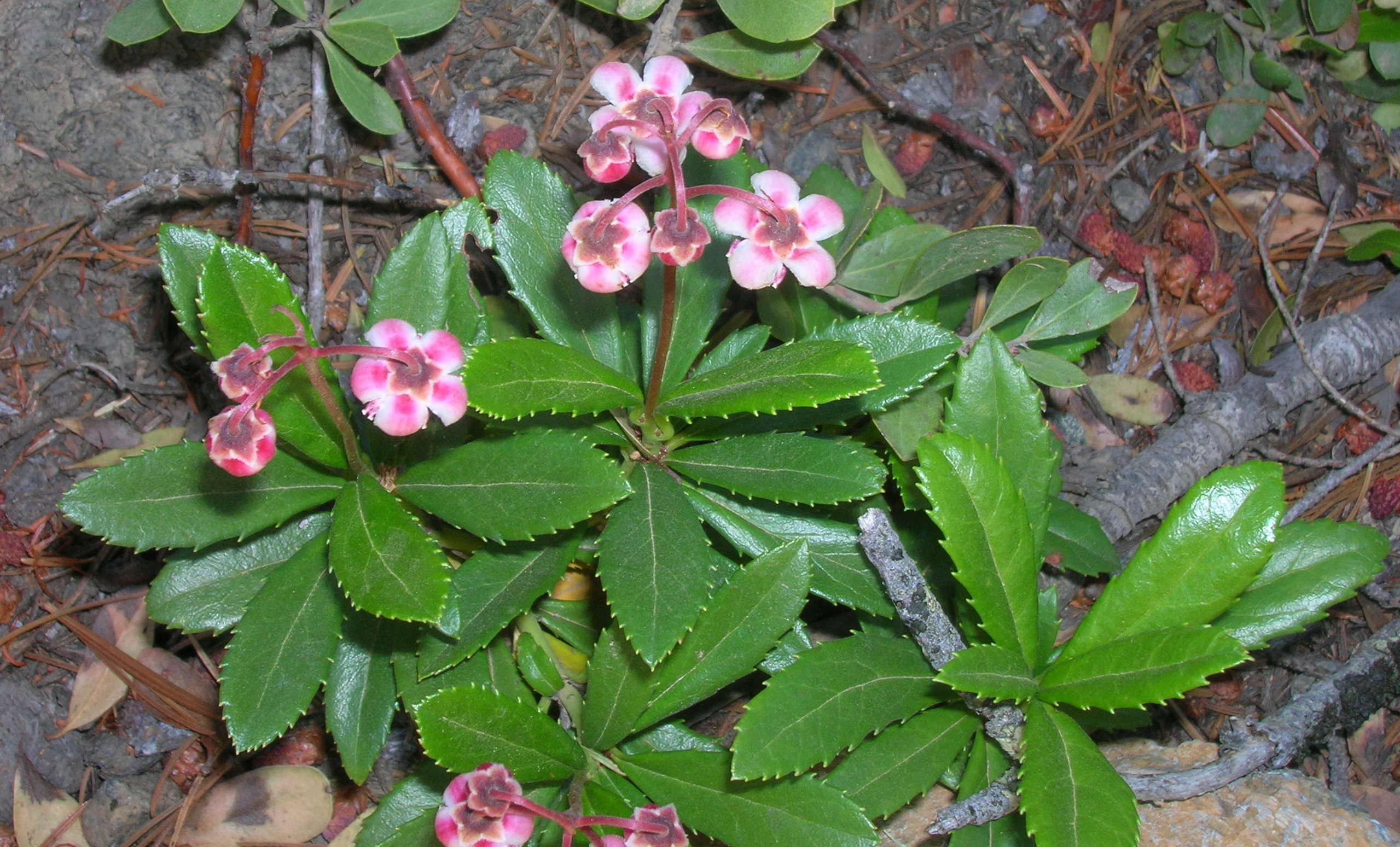 Chimaphila umbellata subsp. occidentalis, on serpentine rock and soil on Iron Peak at about 1460 m, Iron Peak Trail 1399, Kittitas Co., Washington, USA